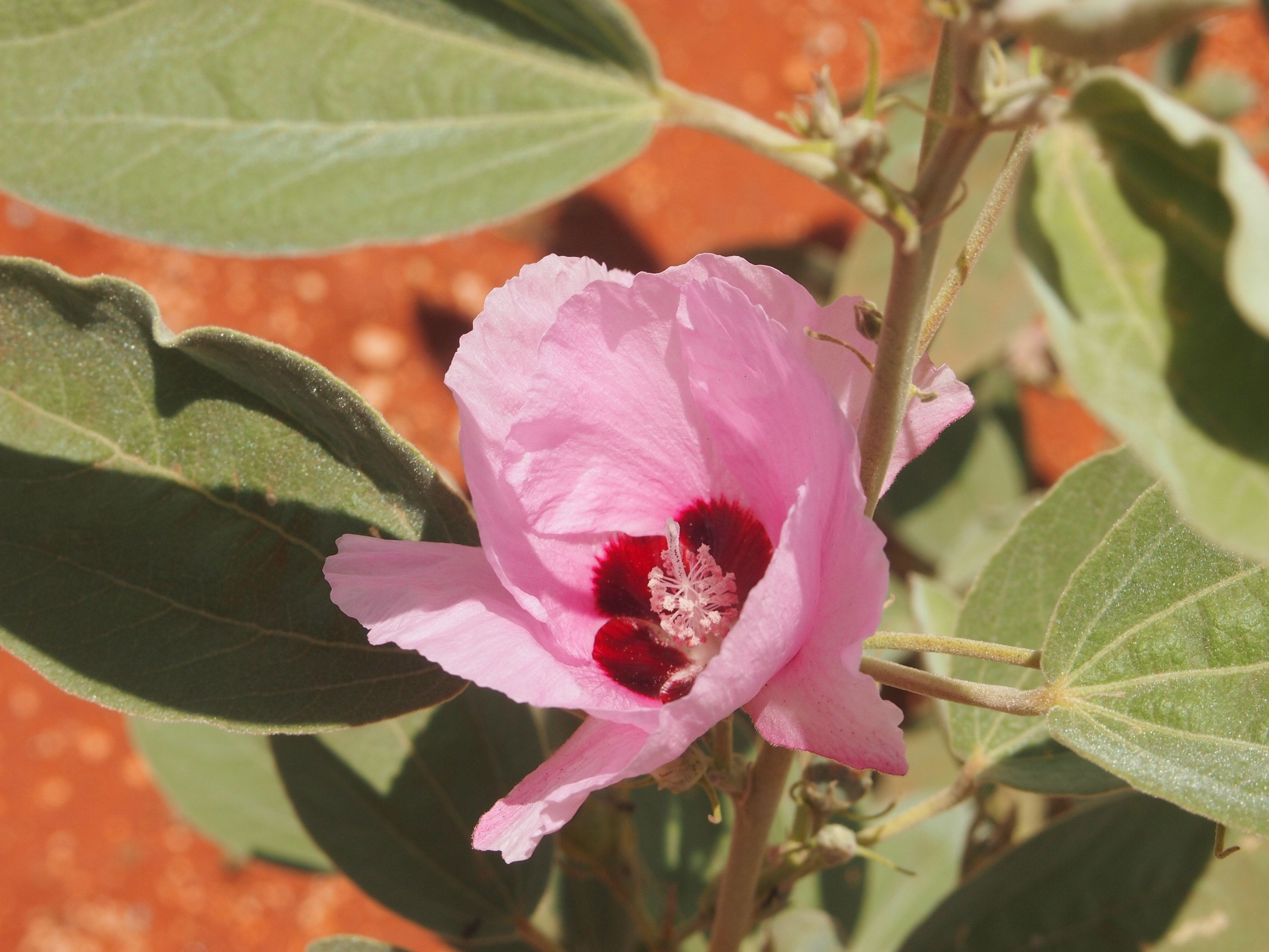 Desert rose (Gossypium australe)